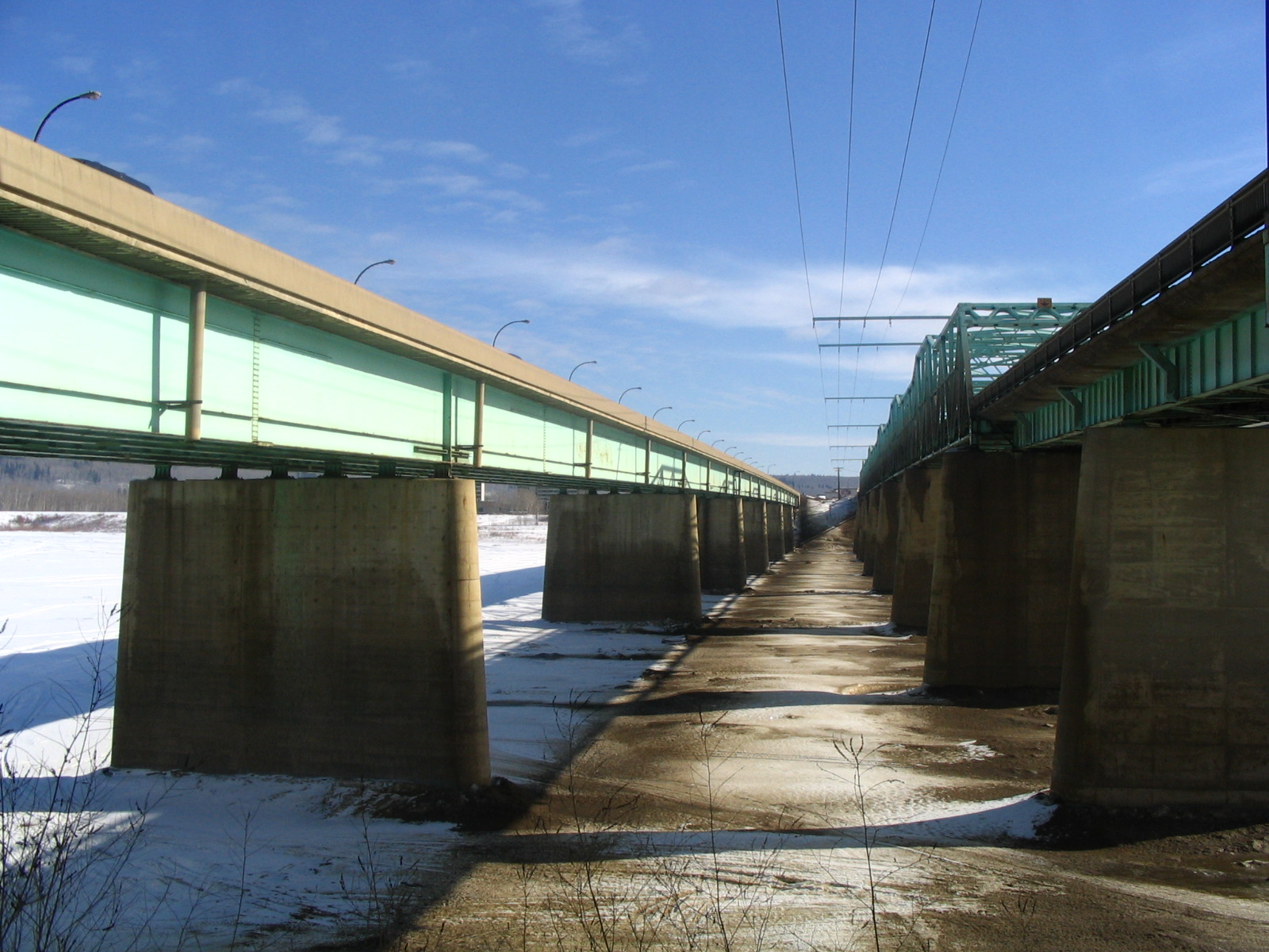 Picture of the two main Highway 63 bridges across the Athabasca River in Fort McMurray, Alberta, Canada.